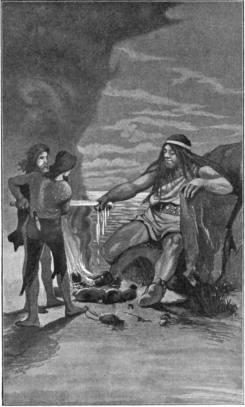 Jätten från Skalunda hög "The giant from Skalunda hög" Drawing by Vicke Andrén from Nils Holgerssons underbara resa genom Sverige by Selma Lagerlöf.